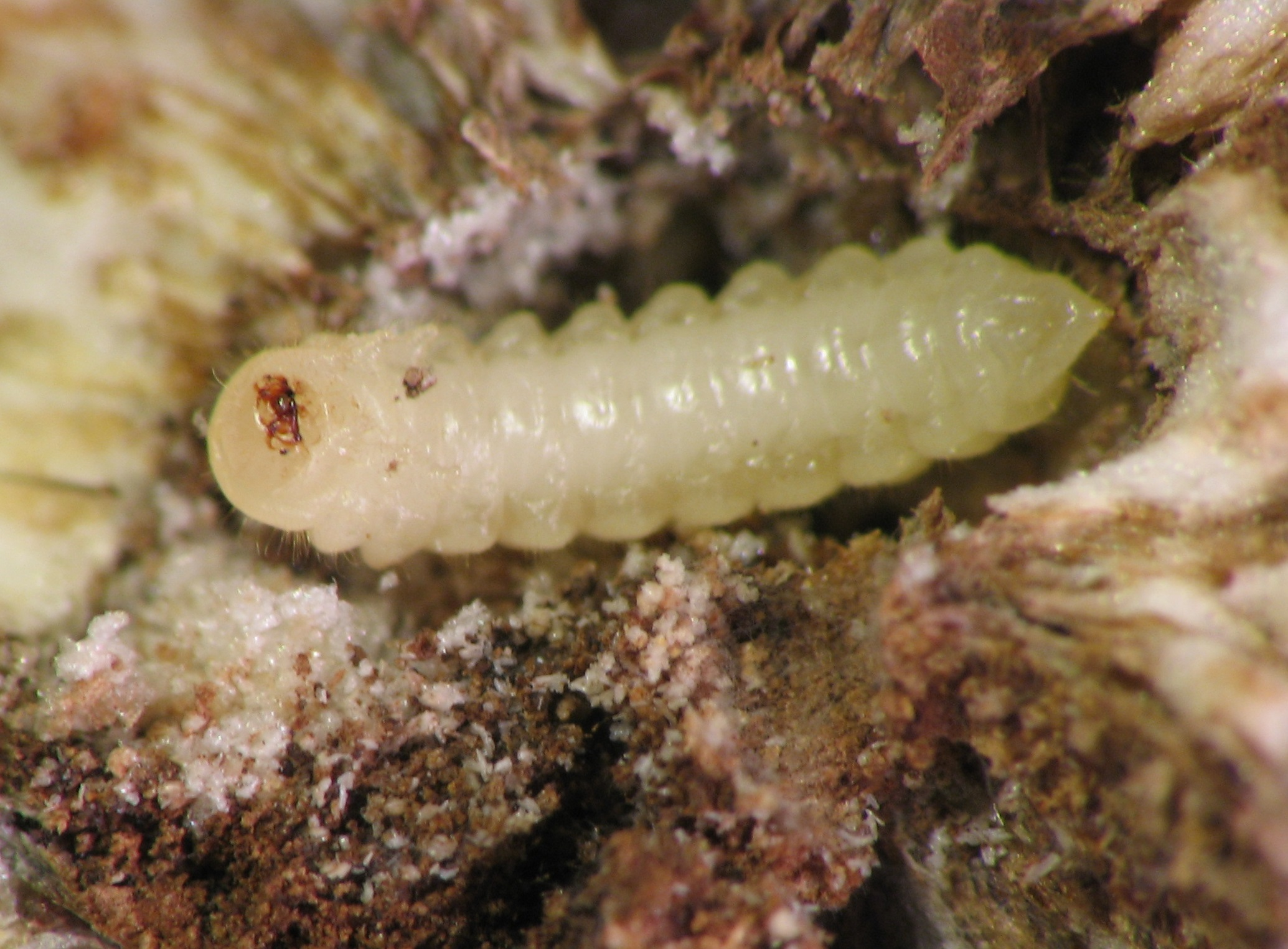 Larva of beetle Mordellistena parasitizing the maggot of Eurosta solidaginis that formed a gall in the stem of goldenrod, Solidago sp. Size 6 mm. Churchville Nature Center, Bucks County, Pennsylvania, USA.